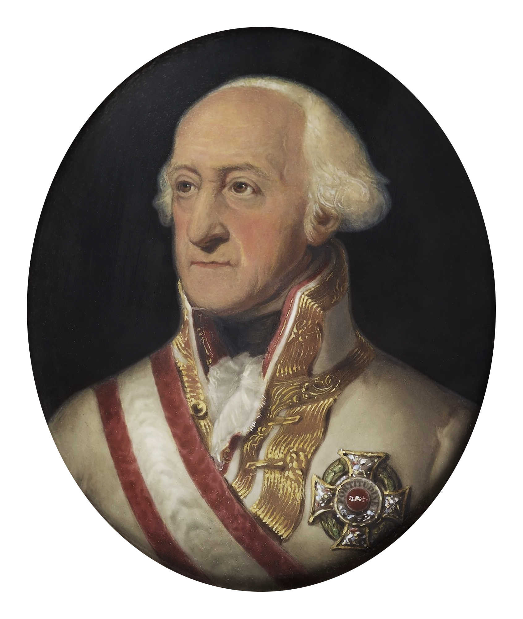 Portrait of Prince Frederick Josias of Saxe-Coburg-Saalfeld (1737-1815)